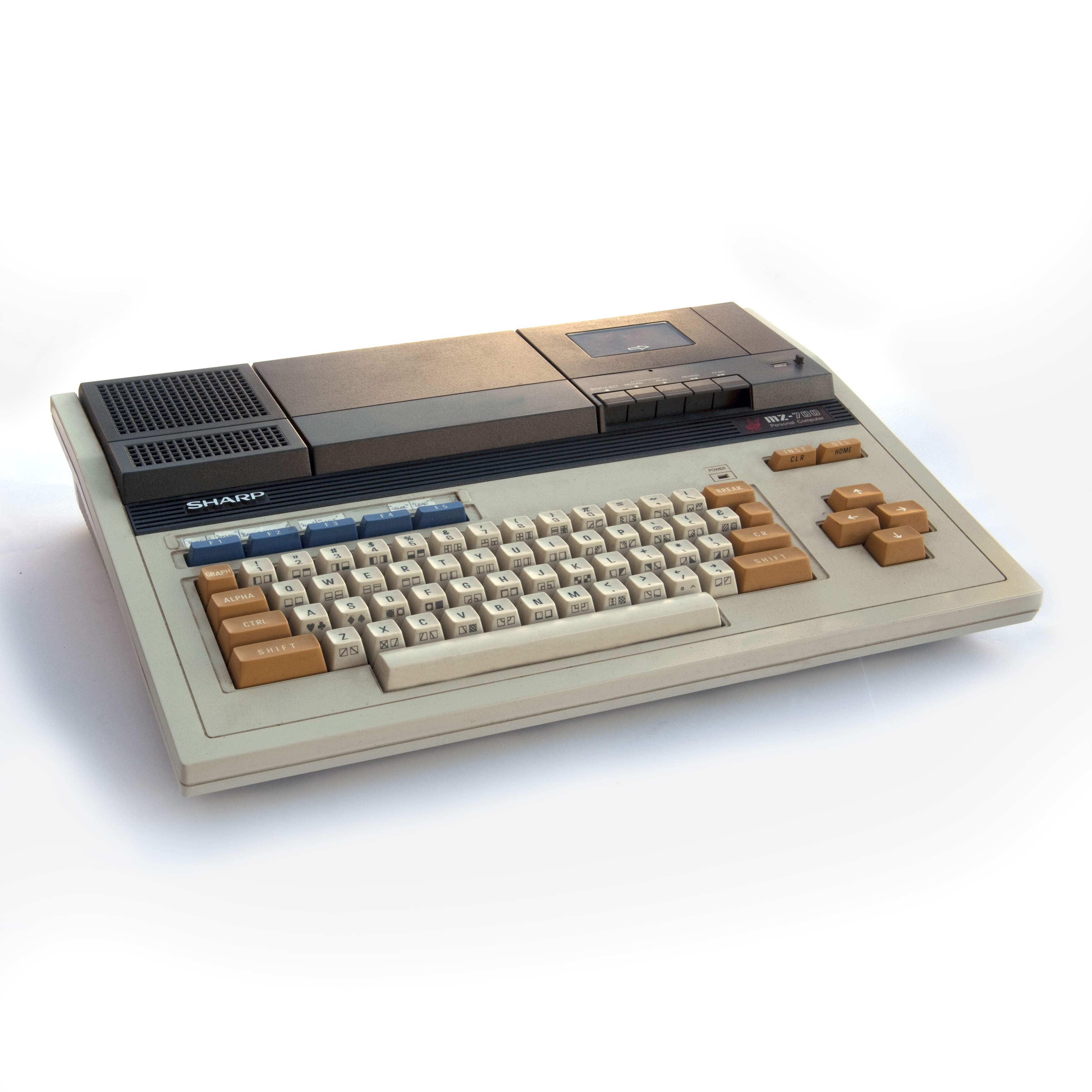 A Sharp MZ-700 8-bit microcomputer.